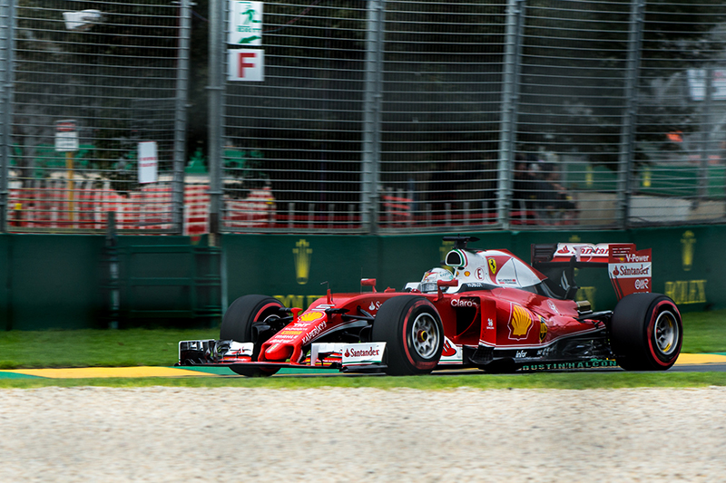 Sebastian Vettel at the 2016 Australian Grand Prix